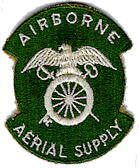 Airborne Aerial Delivery Supply Unit Insignia US Army